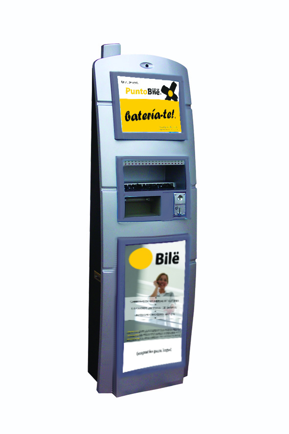 Este Punto Bilë sirve para cargar 18 dispositivos diferentes a la vez en lugares públicos, ya sean móviles, blackberrys, PDAs, MP3, Iphones, cámaras, cualquier tipo de USB y otros dispositvos .